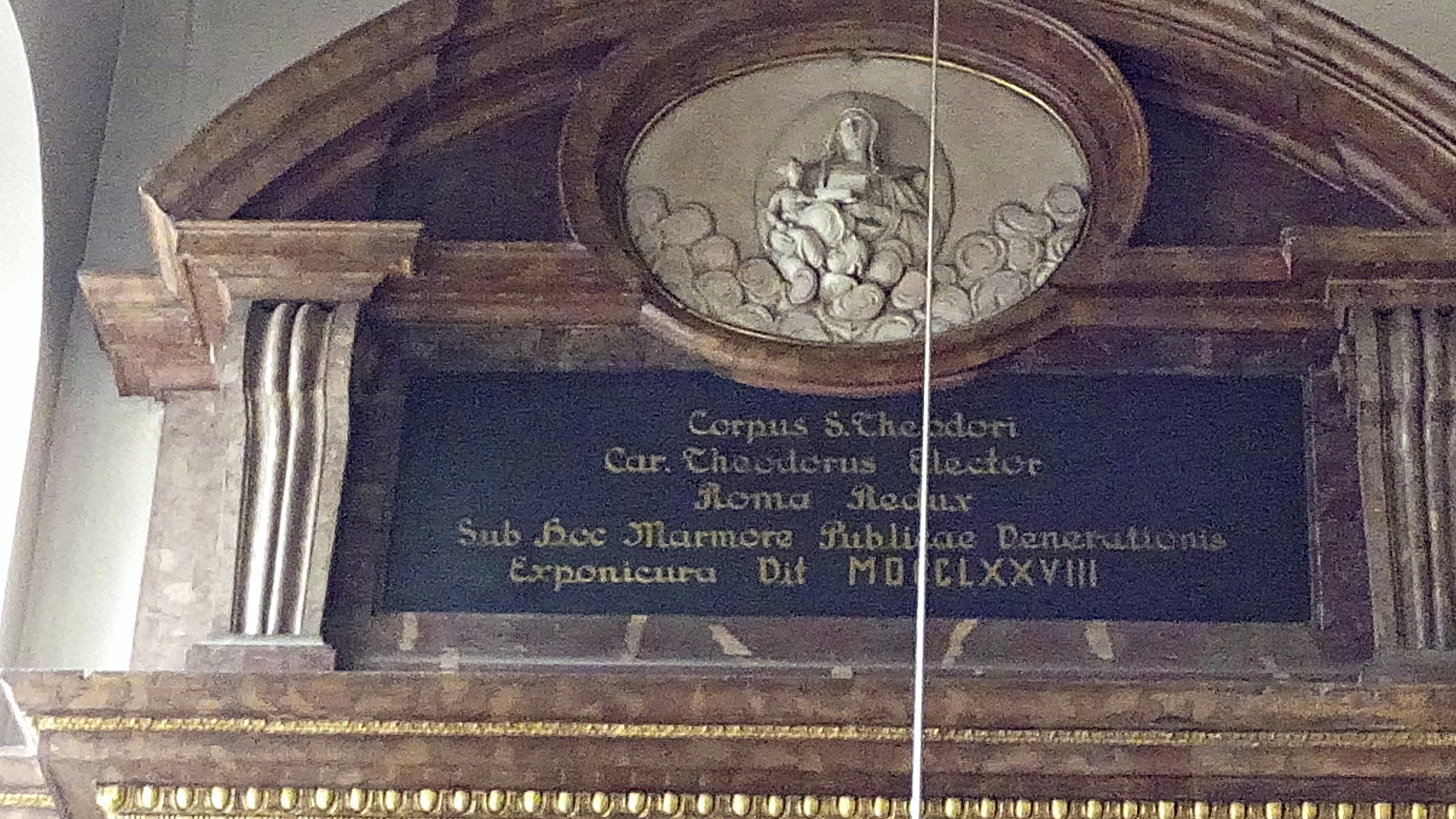 Stifterinschrift Altar des Hl. Theodor, Mannheim, St. Sebastian